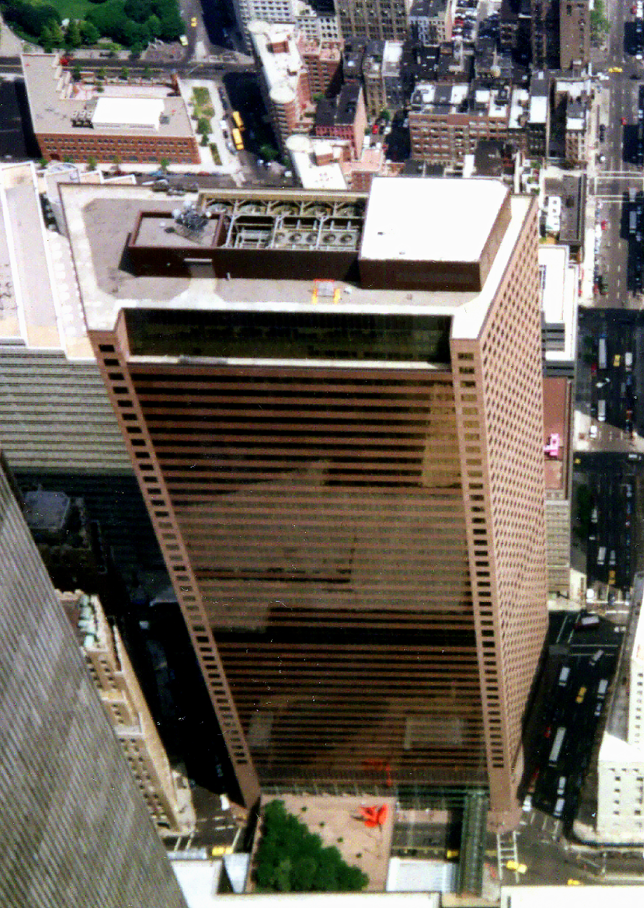 WTC 7, as seen from the WTC observation deck. Photo by Fanghong, August 14, 1992.